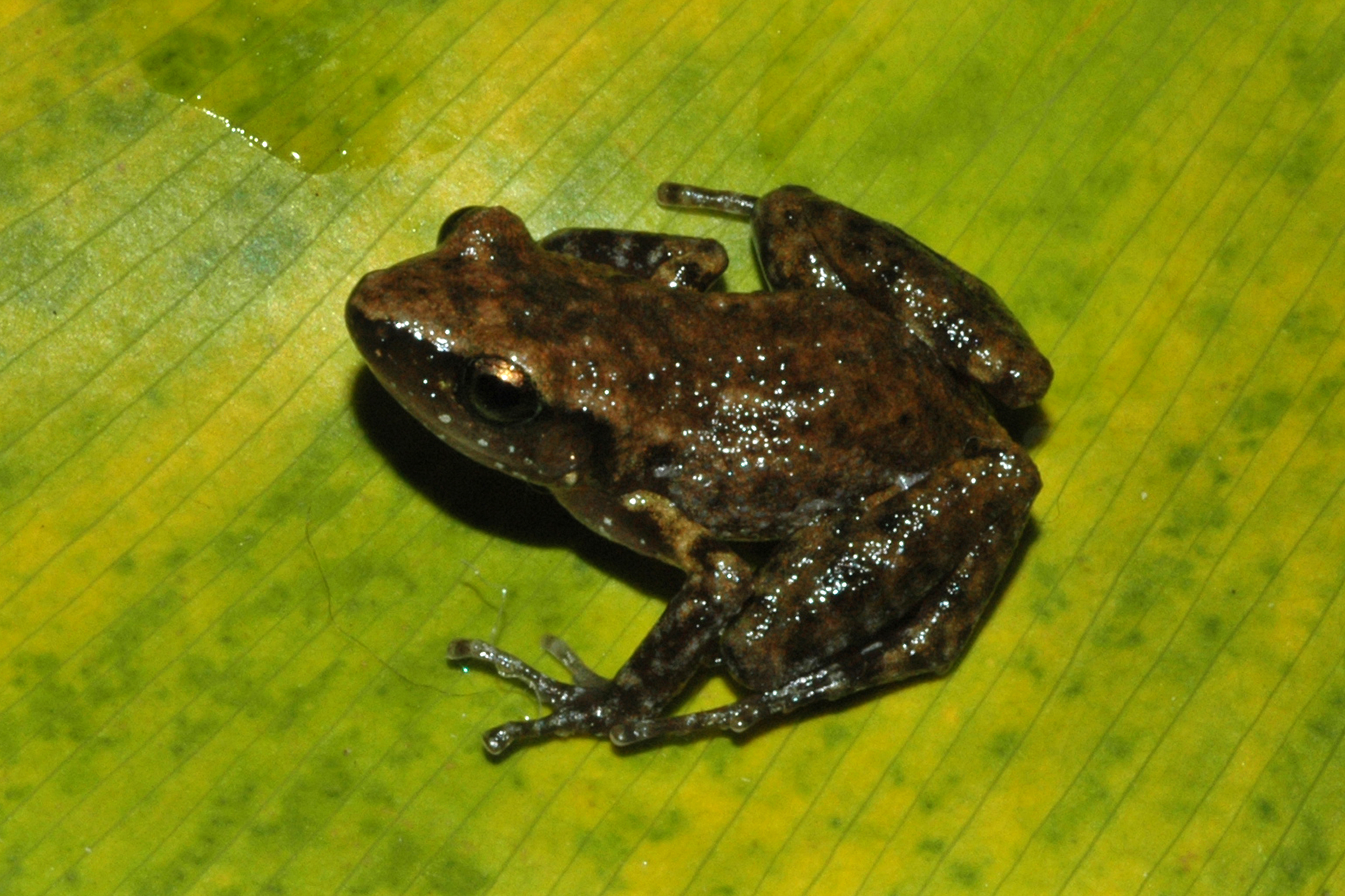 Rio Grande Chirping Frog (Eleutherodactylus cystignathoides), Class, Amphibia: Order, Anura: Family, Eleutherodactylidae. This specimen was photographed at Davis Hill State Park, Liberty County, Texas, USA (30.3193°N, 94.8190°W, 21 m.) 13 April 2007. William L. Farr